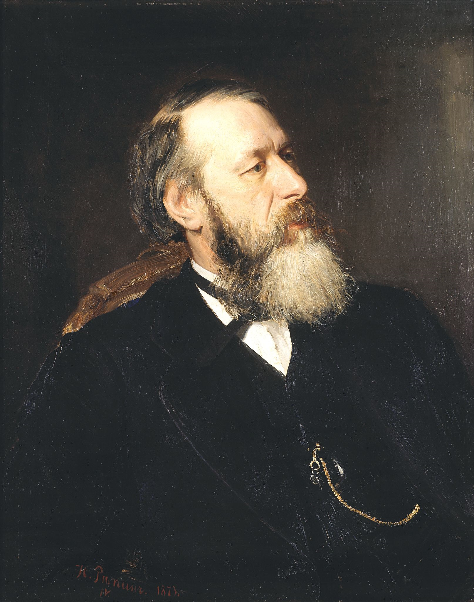 Portrait of Vladimir Vasilievich Stasov, Russian art historian and music critic